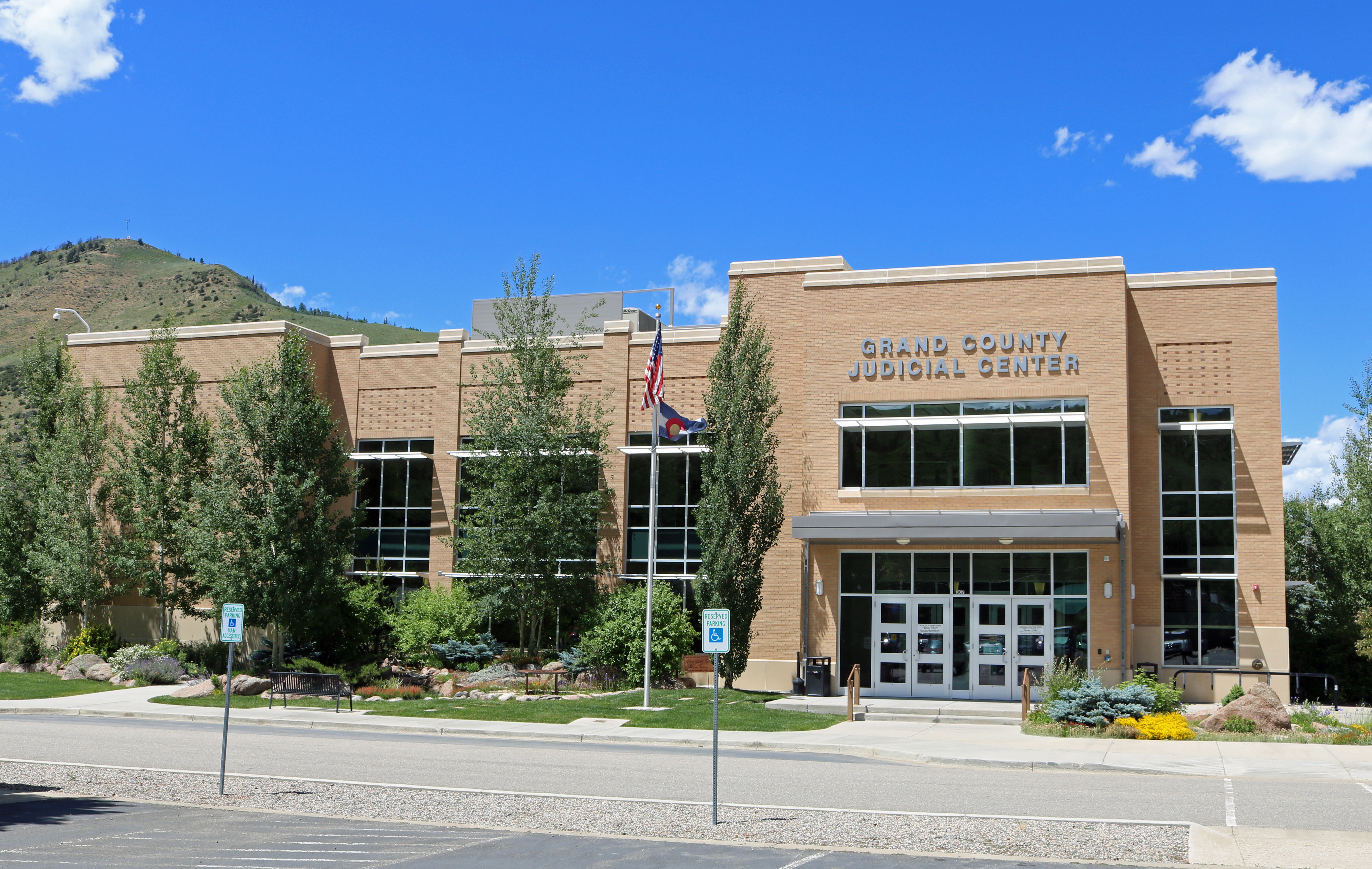 The Grand County Judicial Center, located at 307 Moffat Avenue in Hot Sulphur Springs, Colorado.